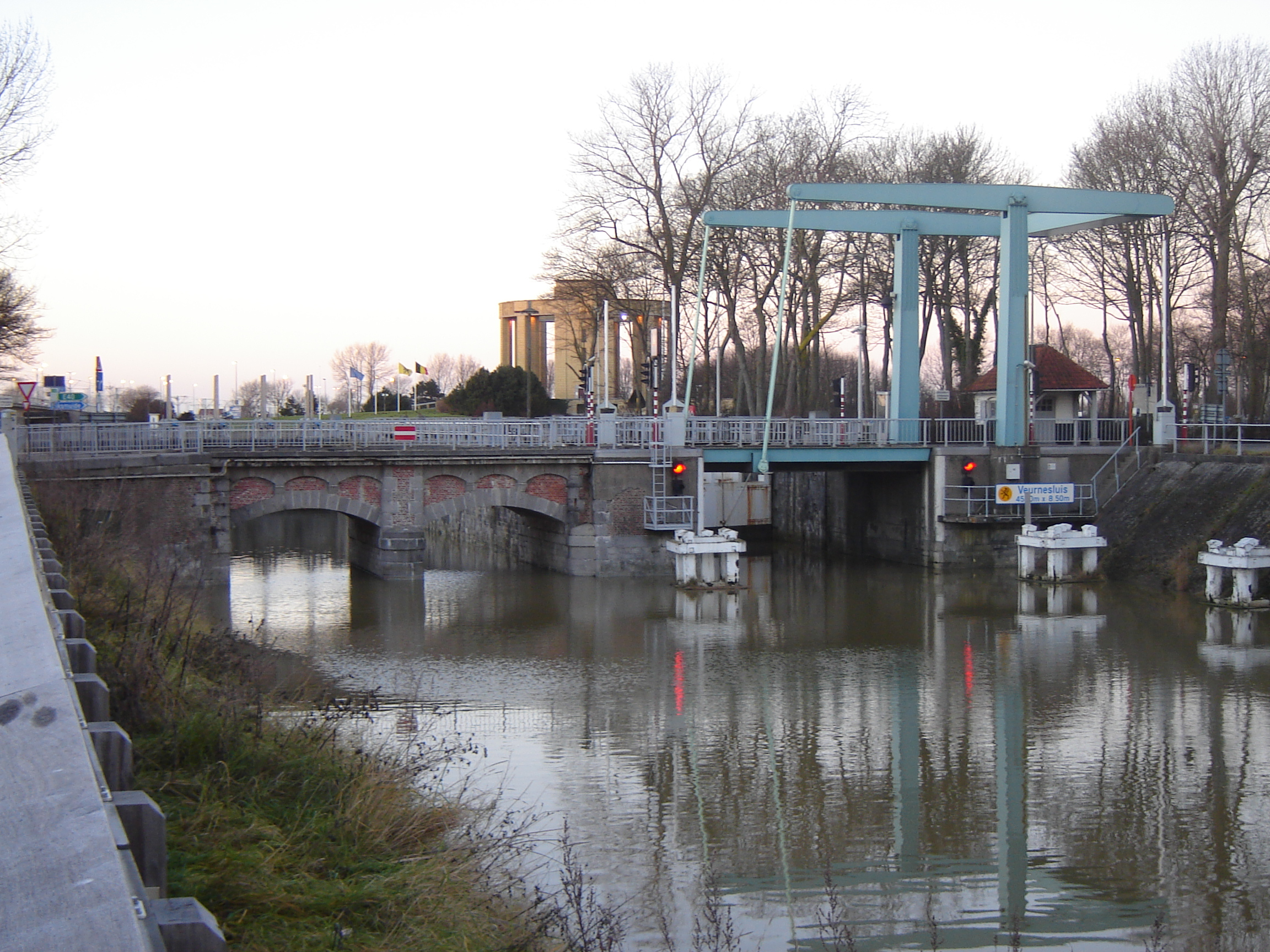 Veurnesluis canal lock in Nieuwpoort. Nieuwpoort, West-Flanders, Belgium